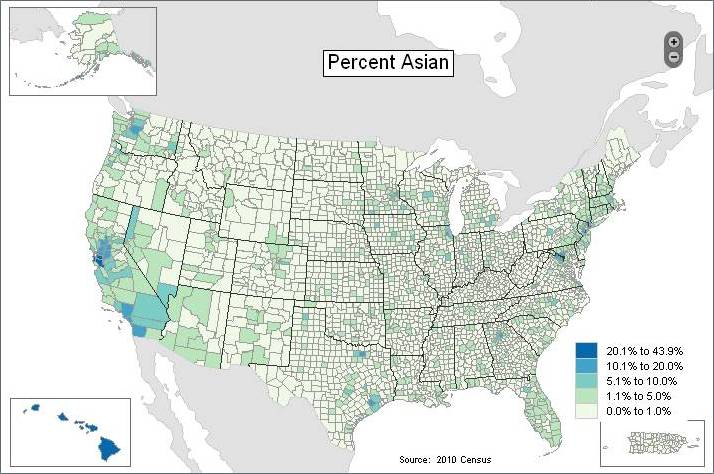 Asian Population as a Percentage of County Population: 2010